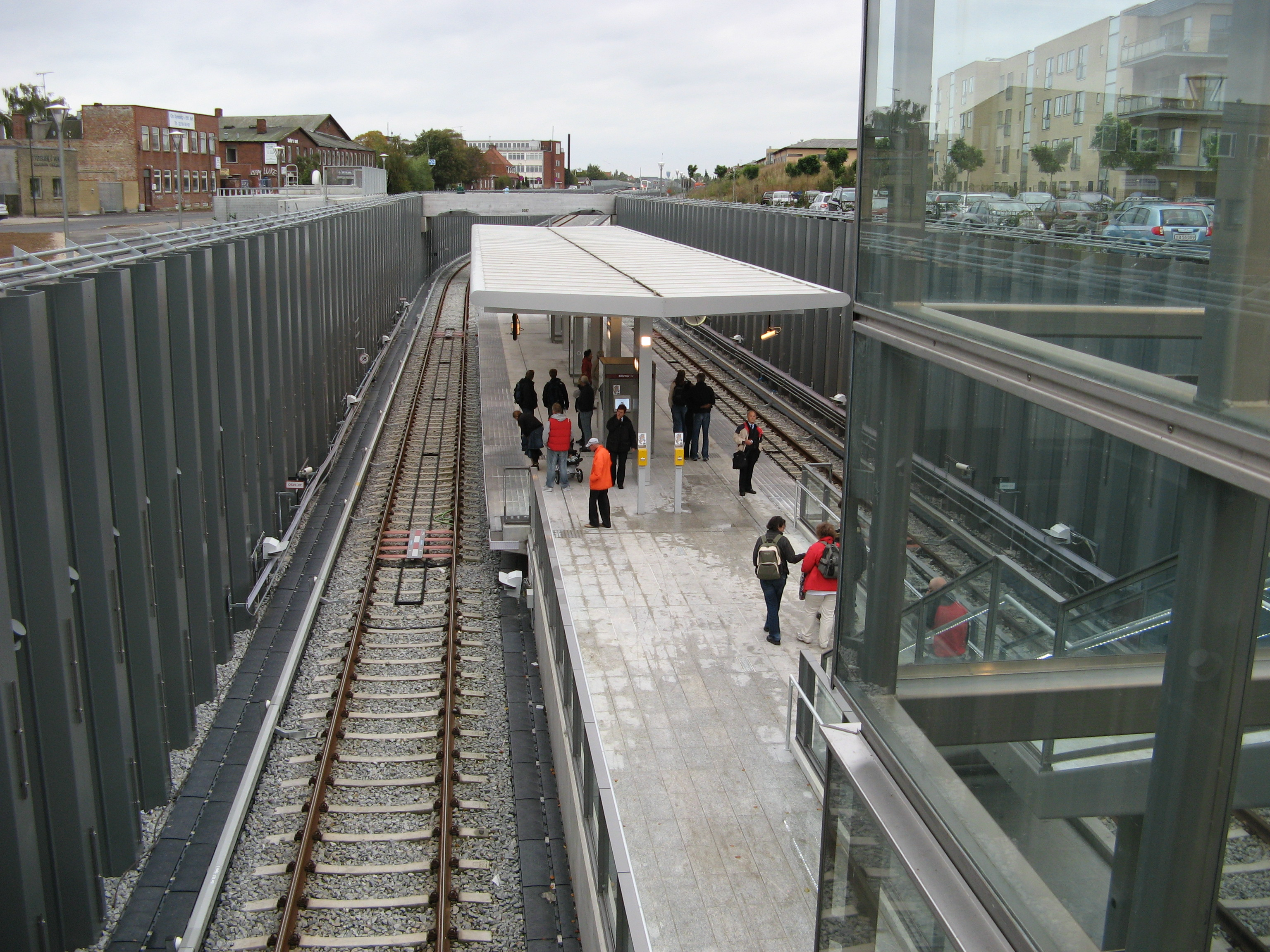 Øresund Station at the Copenhagen Metro, Denmark